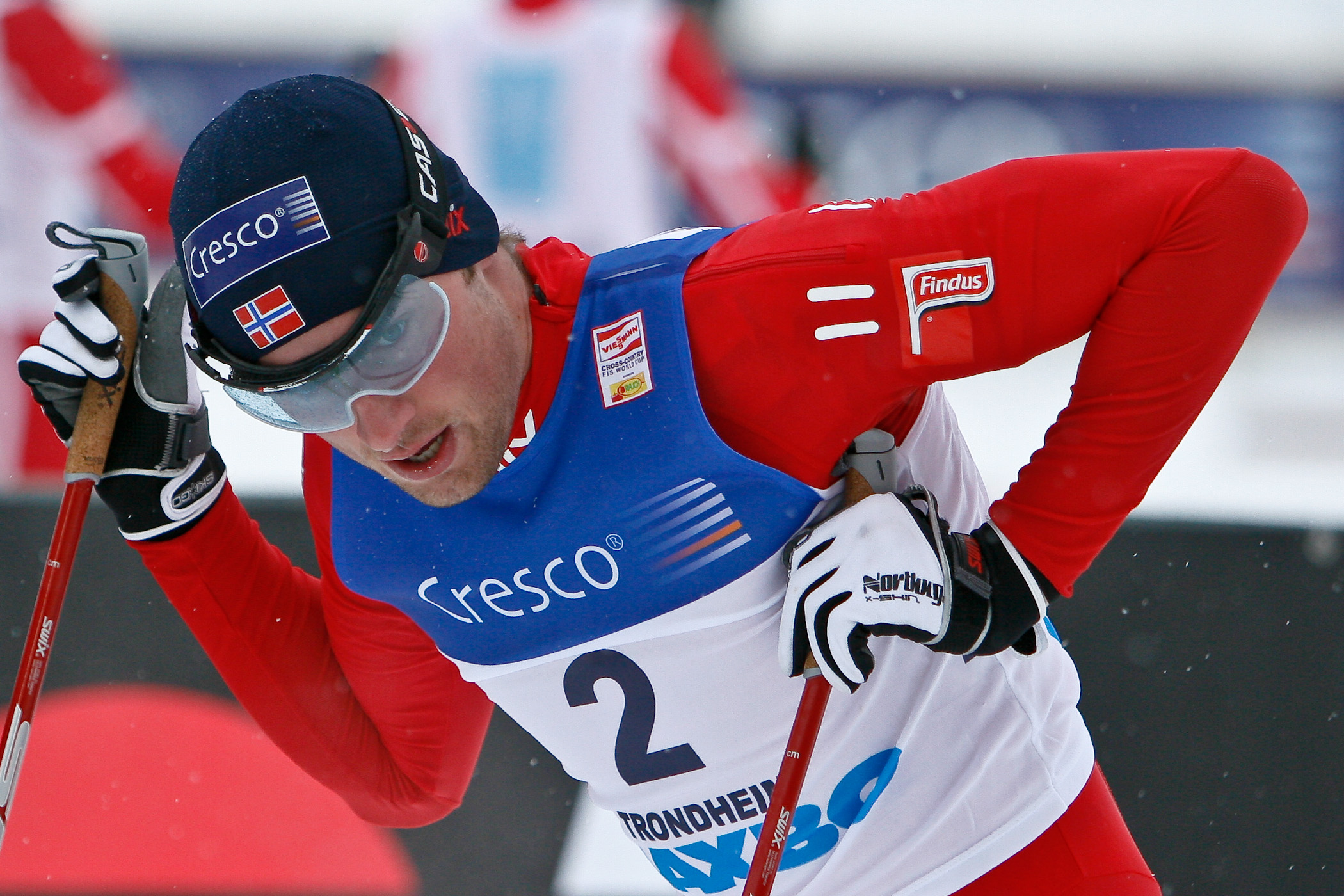 Petter Northug, at this time in second place in the world cup, but gaining on "Super-Dario" Cologna. FIS World Cup Trondheim 2009, sprint men. The license on this photo was changed on 11 February 2010 from All rights reserved to Creative Commons (CC-BY-SA). At the same time, a bigger version (2100x1400px) of the photo replaced the old one. If you use this picture, remember to give credit according to the license (